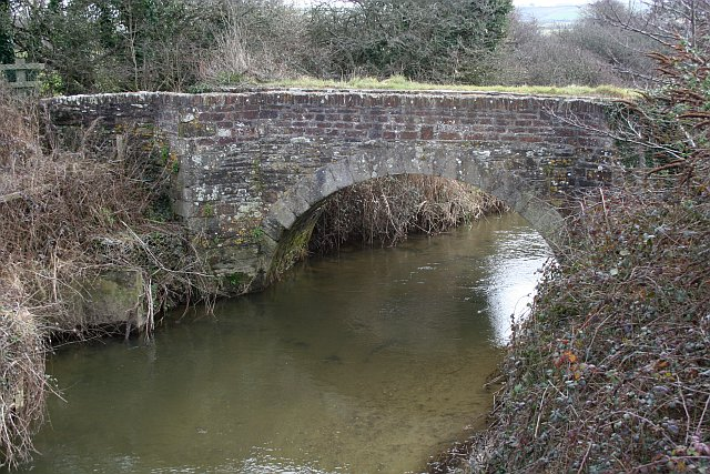 The Old Bridge at Trevemper. This bridge is at the tidal limit of the River Gannel. It was rebuilt after two of the arches of the bridge were destroyed in a flood in November 1839. The rebuilt bridge has a single arch. This photograph was taken from the modern bridge over the river which carries the main road into Newquay.